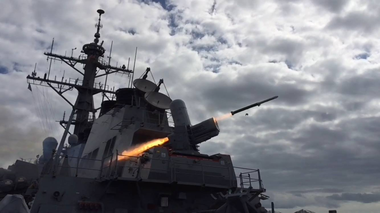 USS Porter launching a missile from SeaRAM